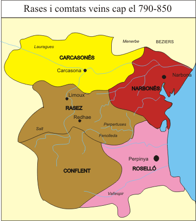 Count of Razès and Conflent 790–850.